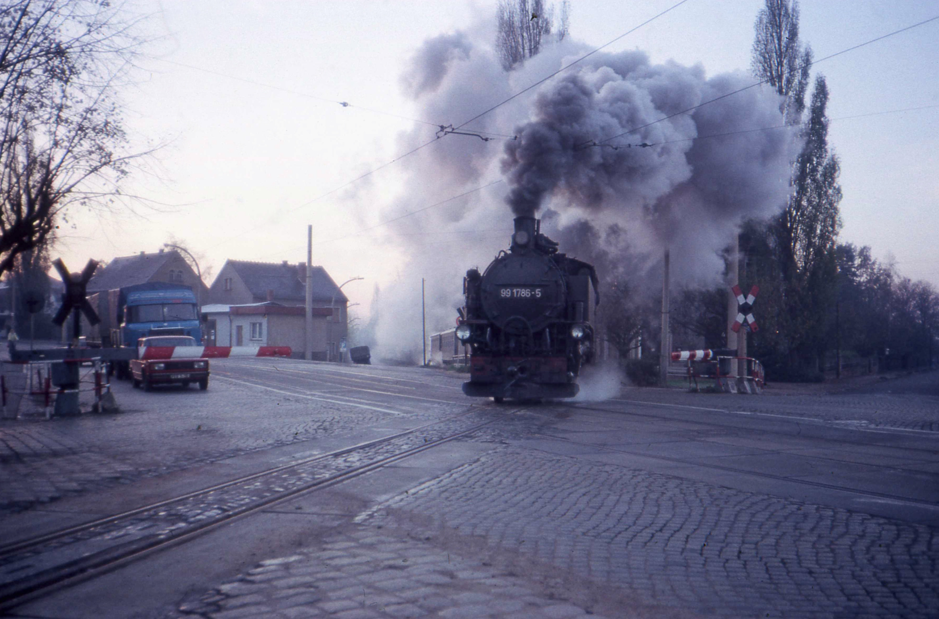 The Crossing in Meissner Strasse. A narrow gauge train with 99 1786-5 from Radebeul to Radeburg leaves Weisses Ross haltepunkt and crosses the tramlines of the long routes 4 and 5. Behind the Lada car is an IFA W50 truck.